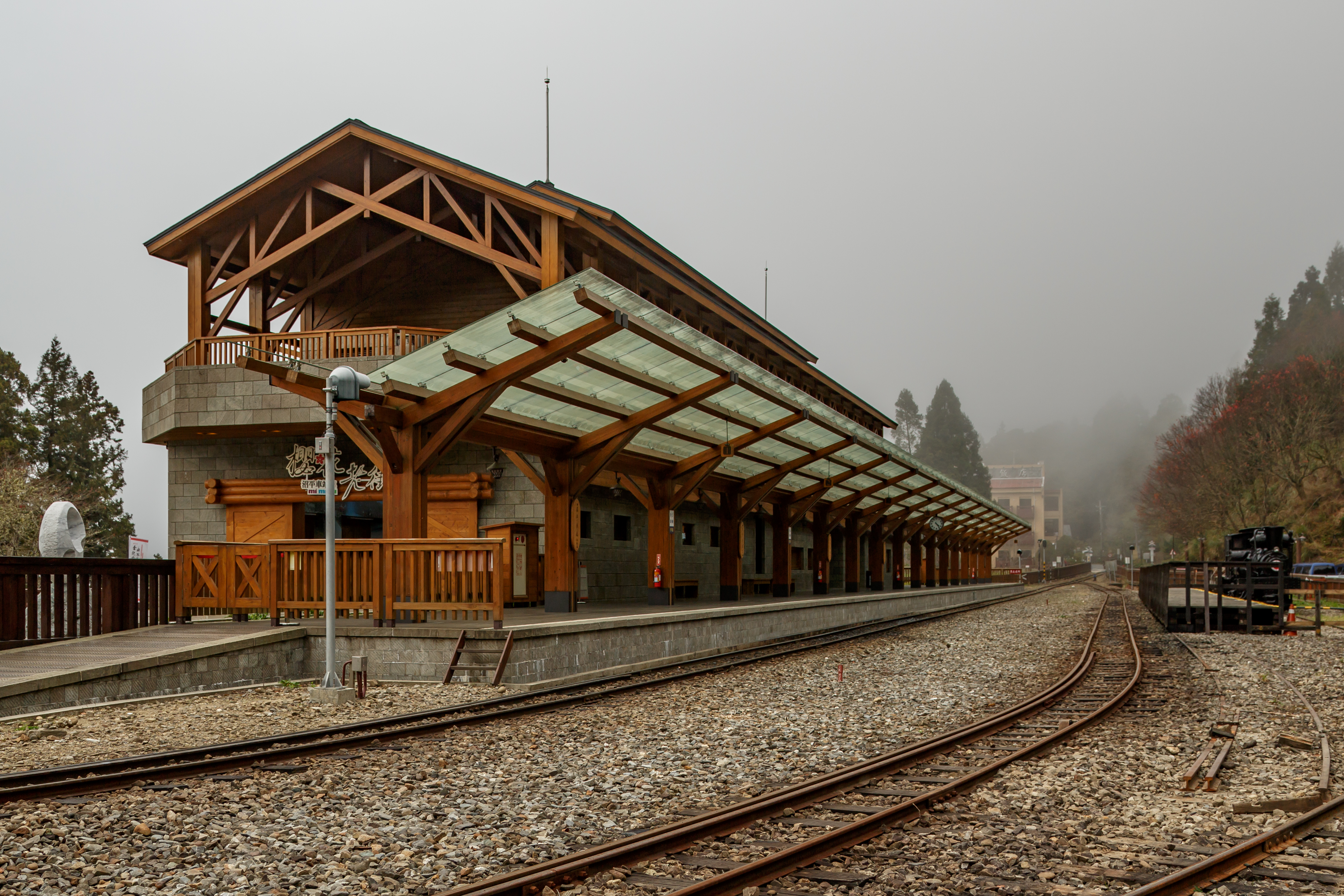 Alishan, Taiwan: The new Jhaoping Station (after refurbishment) of the Alishan Forest Railway, Taiwan.